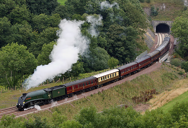 Union of South Africa just south of Bowshank Tunnel, carrying Queen Elizabeth II to the royal opening of the Borders Railway at Tweedbank